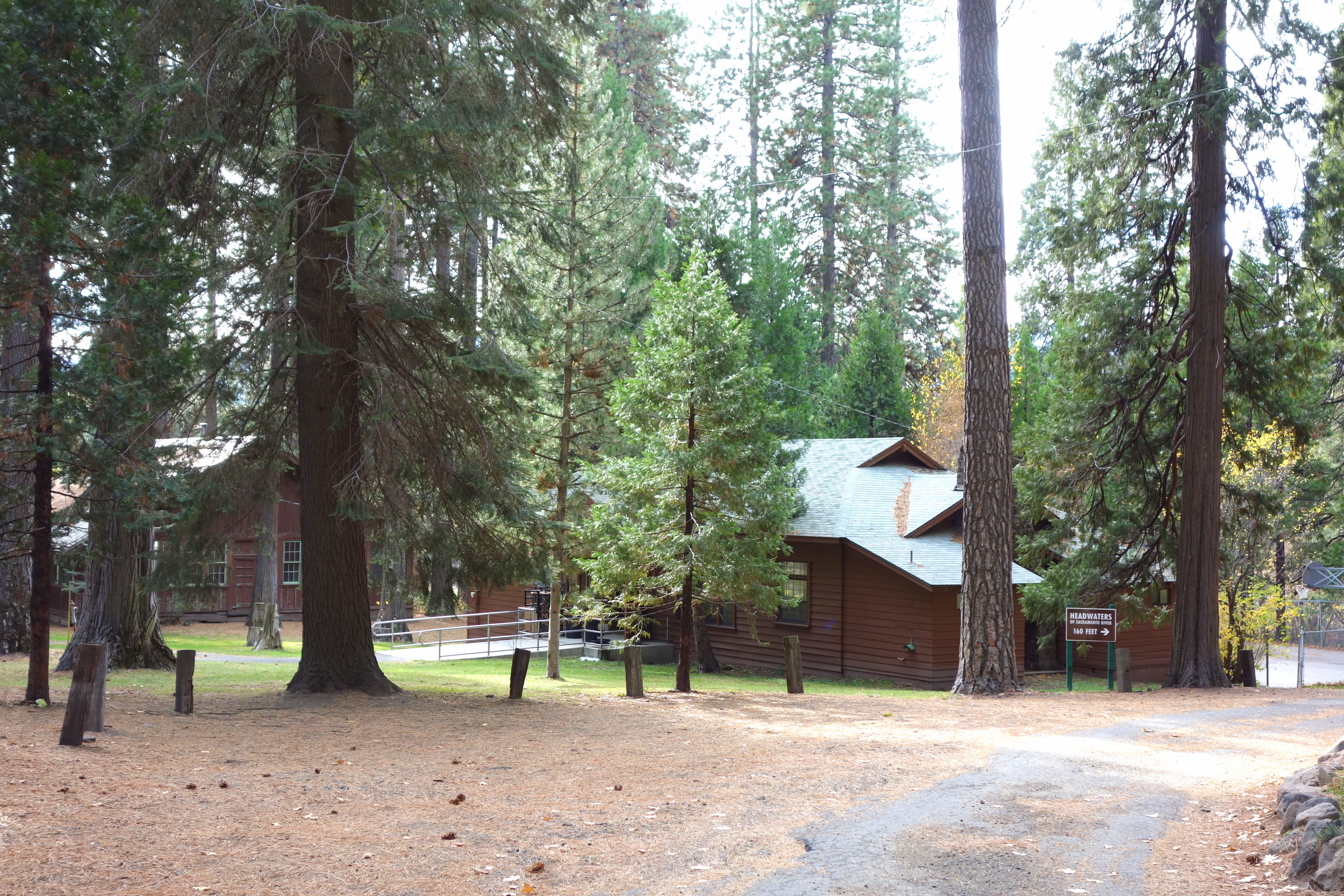 Mount Shasta City Park - Mount Shasta City, California, USA.